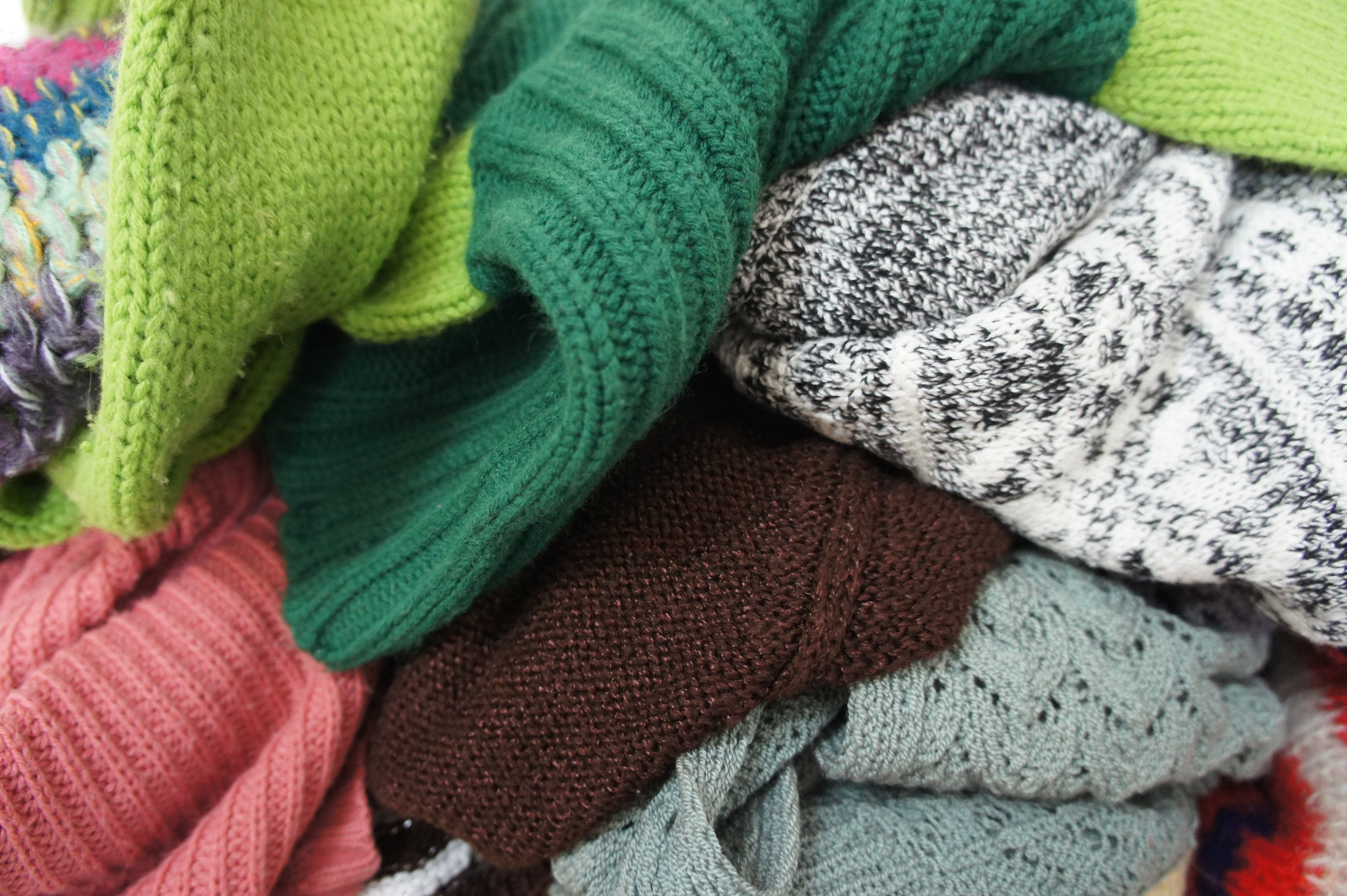 postconsumer textiles